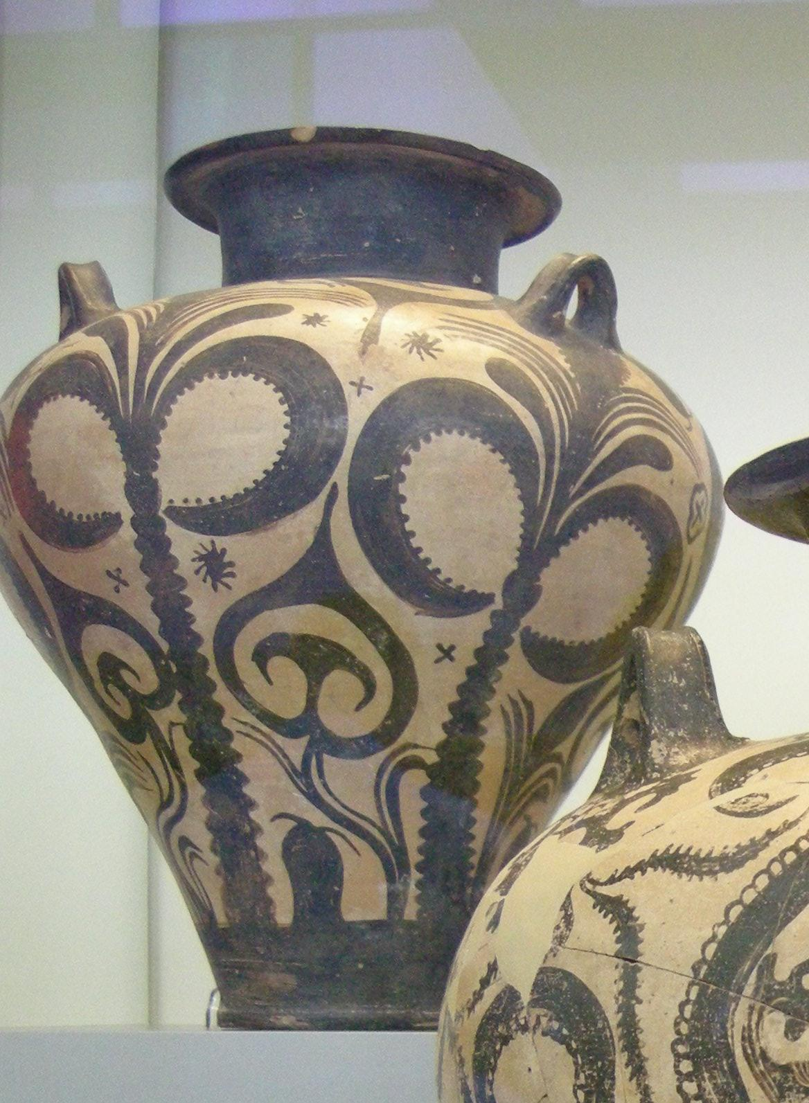 Vase from mycenaean cemetary at Deirada, Argos, 15 cent BC